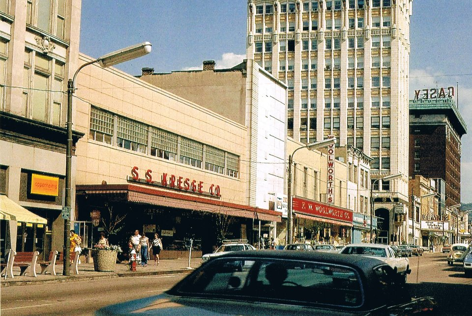 Former F. W. Woolworth store, and an S. S. Kresge store along Lackawanna Avenue, Scranton, PA. The Woolworth store address was 423-429 Lackawanna Ave, Scranton, PA. It was typical to see a Kresge store near Woolworth stores in many towns and cities. ca.1978